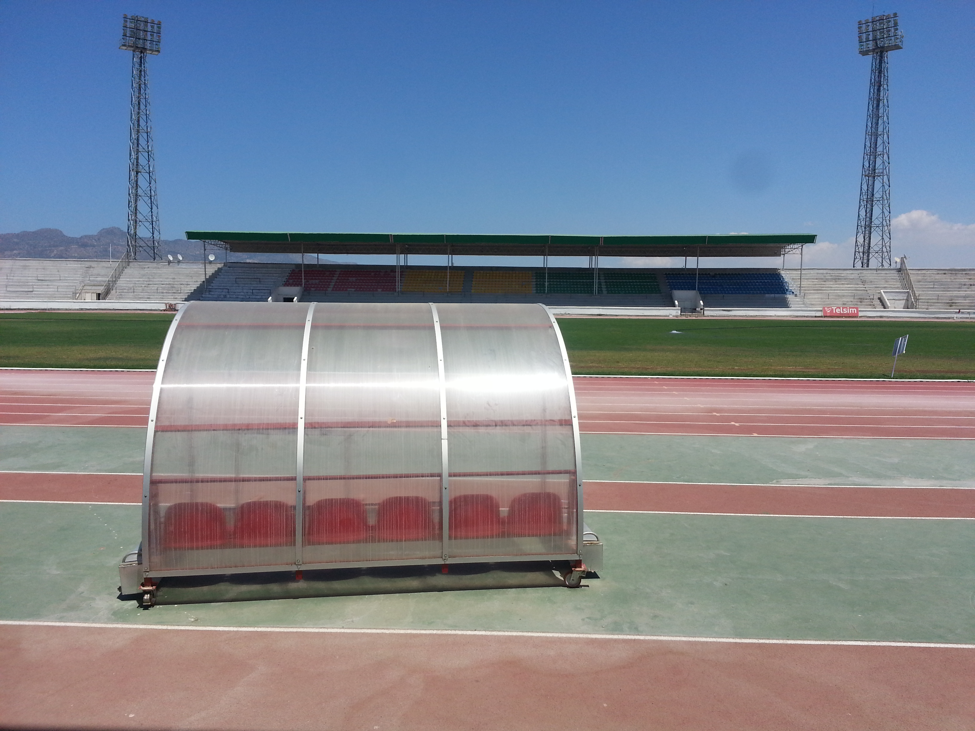 Nicosia Atatürk Stadium, the largest stadium in Cyprus with 28,000 seats